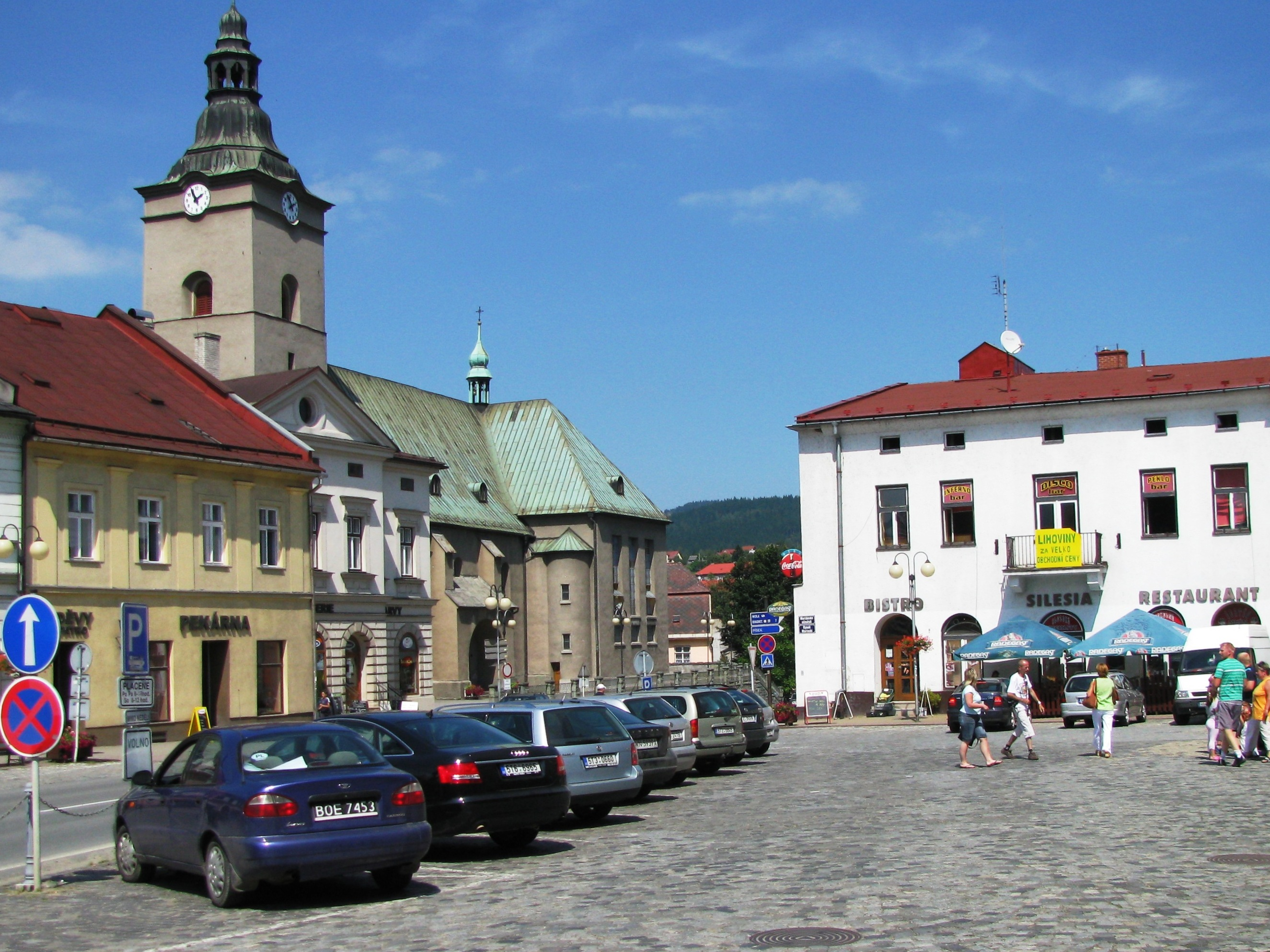 Jablunkov (formerly Jabłonków) Market Square, Czech Republic. The Scotch Mist Gallery contains many photographs of historic buildings, monuments and memorials of Poland.